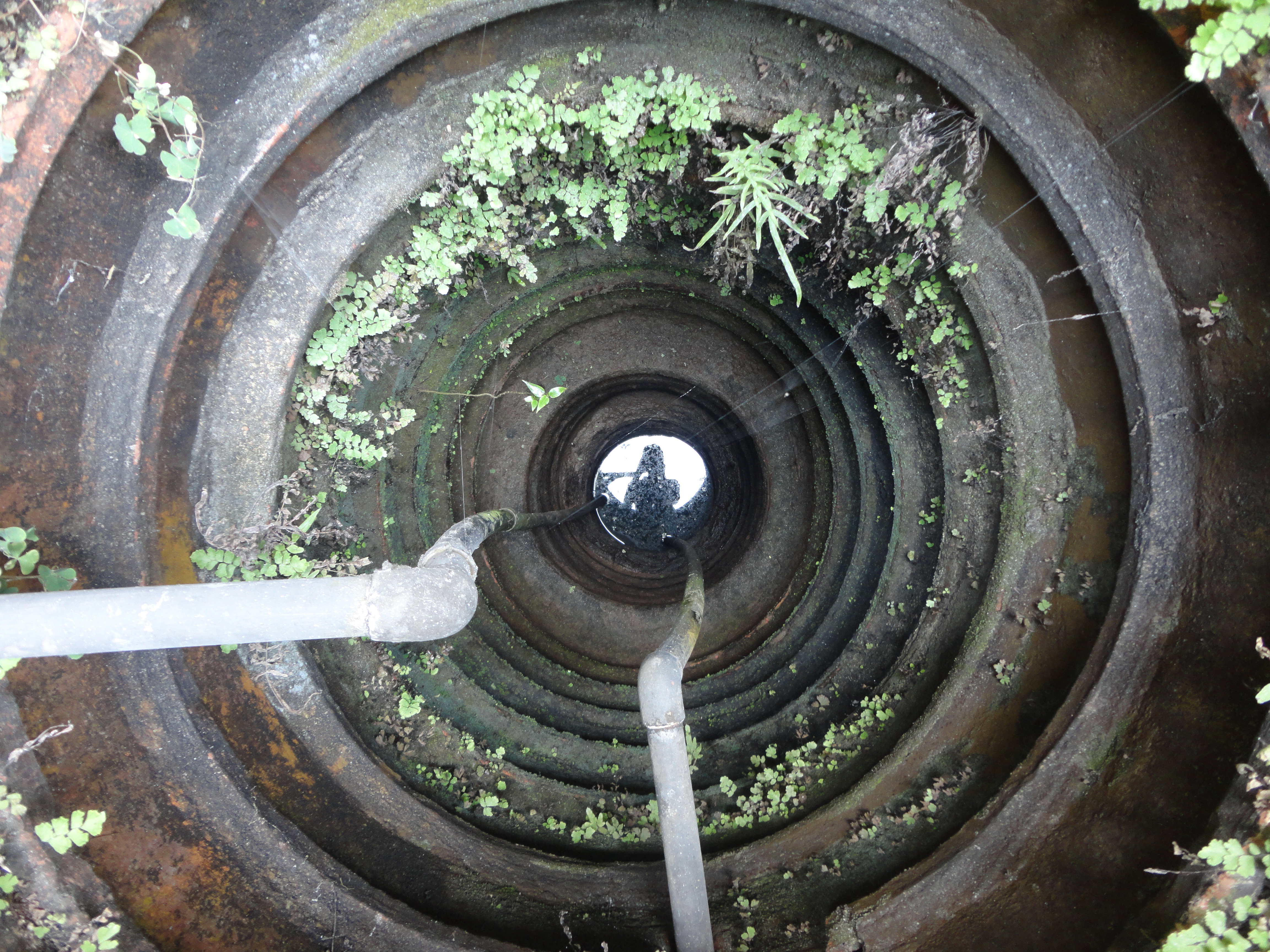 just a well.. not a monument nor a twisted visage of a fallen king or a wonder of rome !! no history but just a old well!!! reveals the infinite secret is holding inside itself.. tears of girl and desires of a young man or the lucrative talks of a women!!! it hides all forever till internity!!!